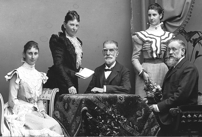 Henrietta de Millas, Sofie de Millas, Adolf Cluss, Julie de Millas, Louis de Millas in Heidelberg, Germany (1898)